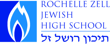 Rochelle Zell Jewish High School Logo